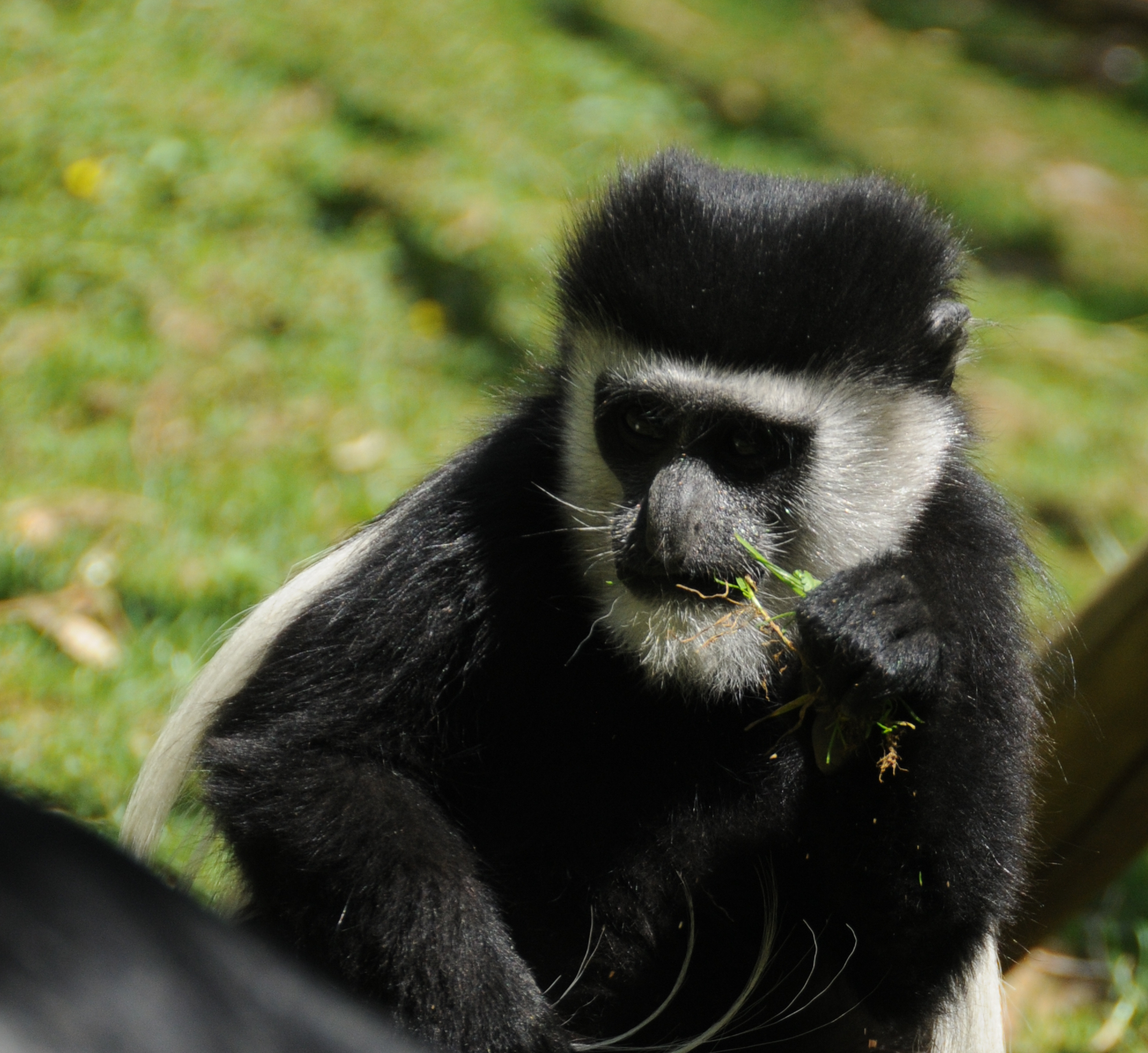 This photograph was taken with a Nikon D300 Citadelle de Besançon : Colobe guéréza (Colobus guereza) (zoo de la citadelle).